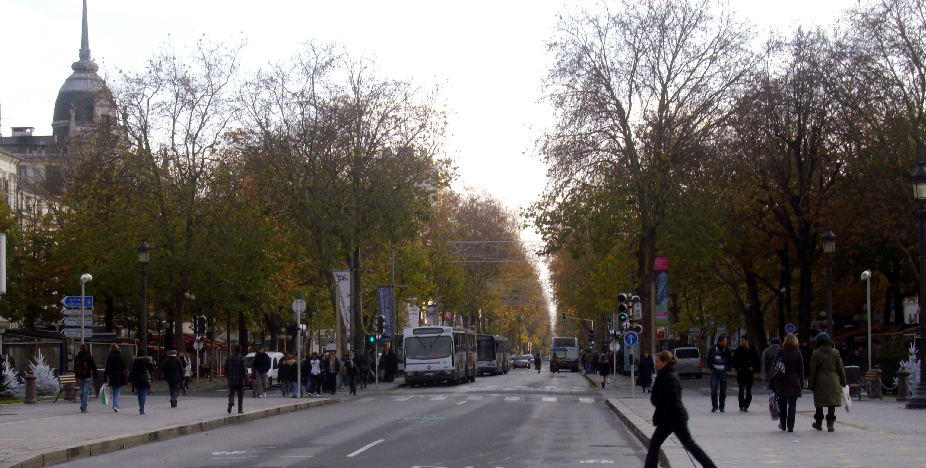 Avenue de Grammont in Tours (Indre-et-Loire, France).